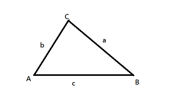 Triangle ABC with Sides a b c